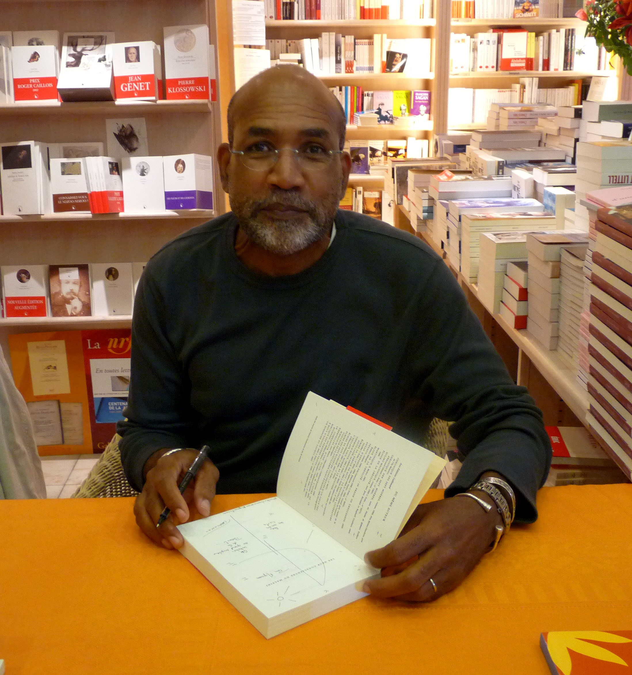 French writer Patrick Chamoiseau